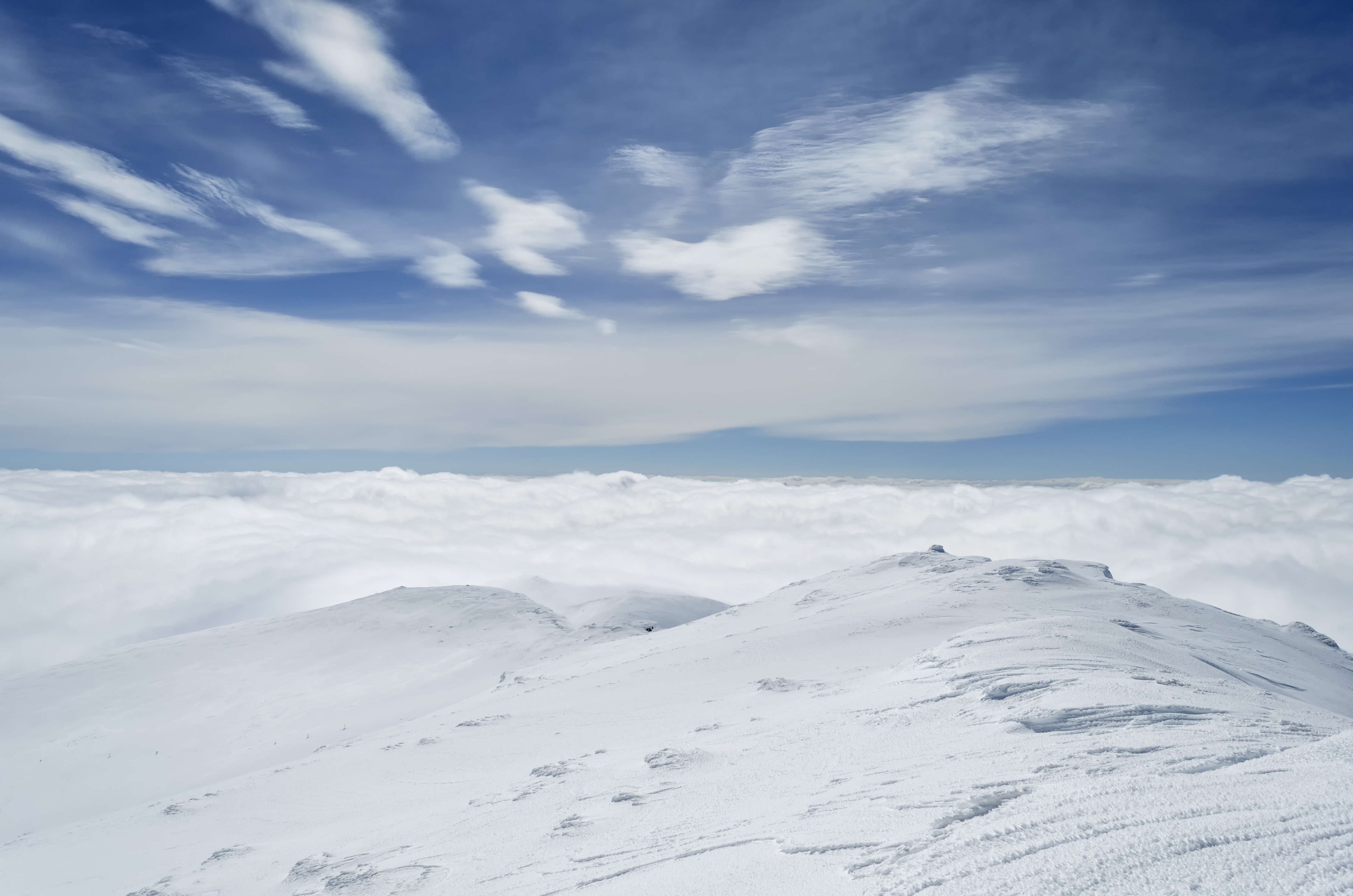 Clouds above the slopes of Baba Mountain seen from the peak Pelister